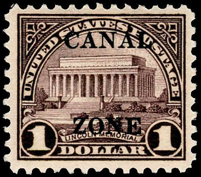 1925 US $1 stamp overprinted for use in the Canal Zone.